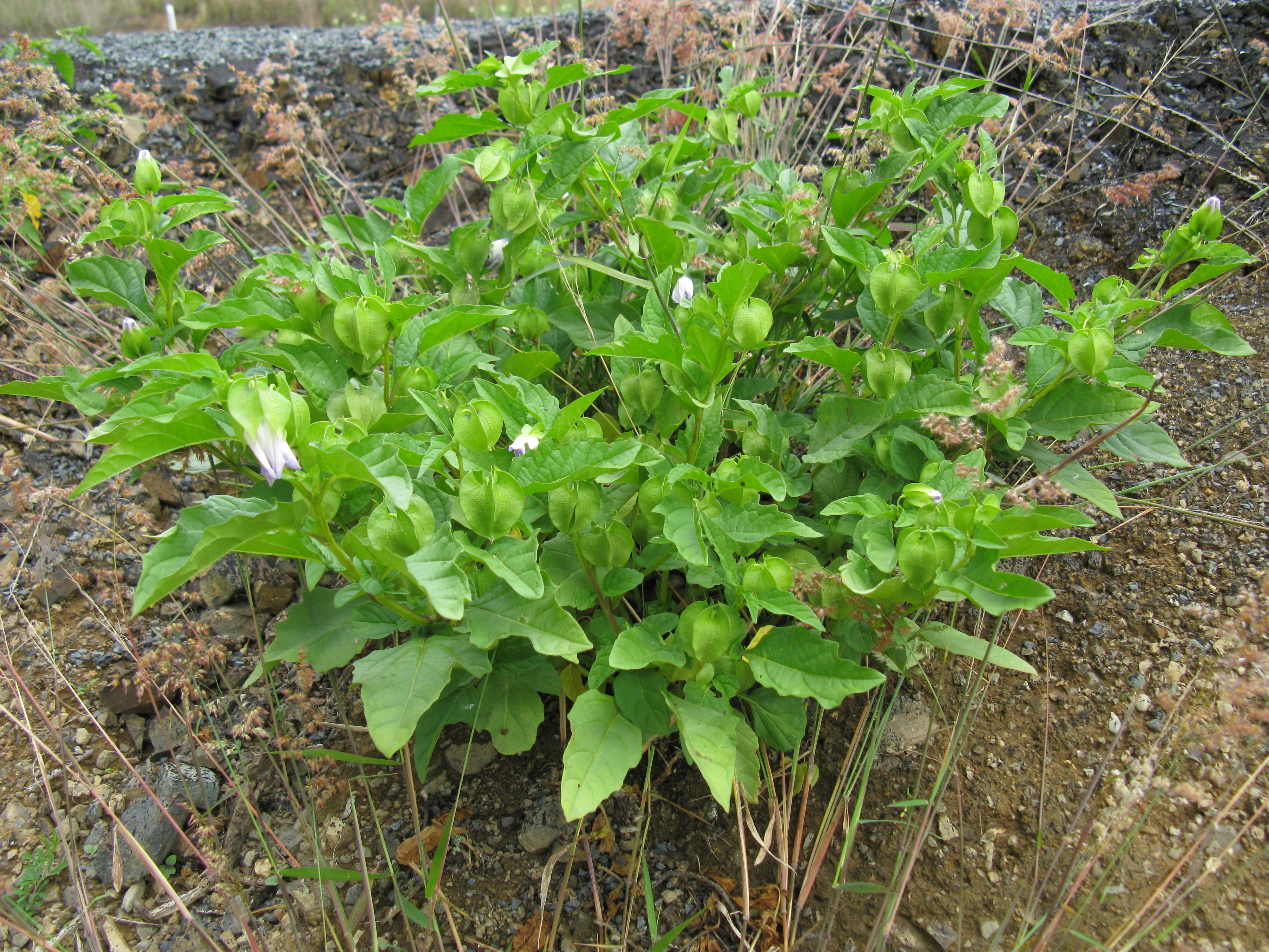 Introduced, warm-season, annual herb. Stems are hollow, branched and 0.5-2 m tall (occasionally to 4 m). Leaves are narrow to broad, 4-15cm long and hairless; may be irregularly toothed or lobed. Blue, bell-shaped flowers with white centres are solitary in the leaf axils. Berries are pale yellow enclosed by papery, winged bladders (calyx). Flowering is mainly summer to autumn. A garden escape that has chiefly become naturalized on the coast; forming a prolifically seeding weed of summer crops (especially maize), disturbed and waste areas. Prefers acidic to neutral soils with good moisture and fertility. Even at relatively low densities it can reduce crop yields and impede harvesting. Has low toxicity and is rarely grazed, but can be a problem in silage and hay. Seed is long-lived. Can appear in newly cultivated paddocks that have been under pasture for more than 10 years. Need to prevent seed production to reduce its soil seedbank and future problems. Can be controlled by hand-pulling, cultivation, pre/post-emergent herbicides and goats.